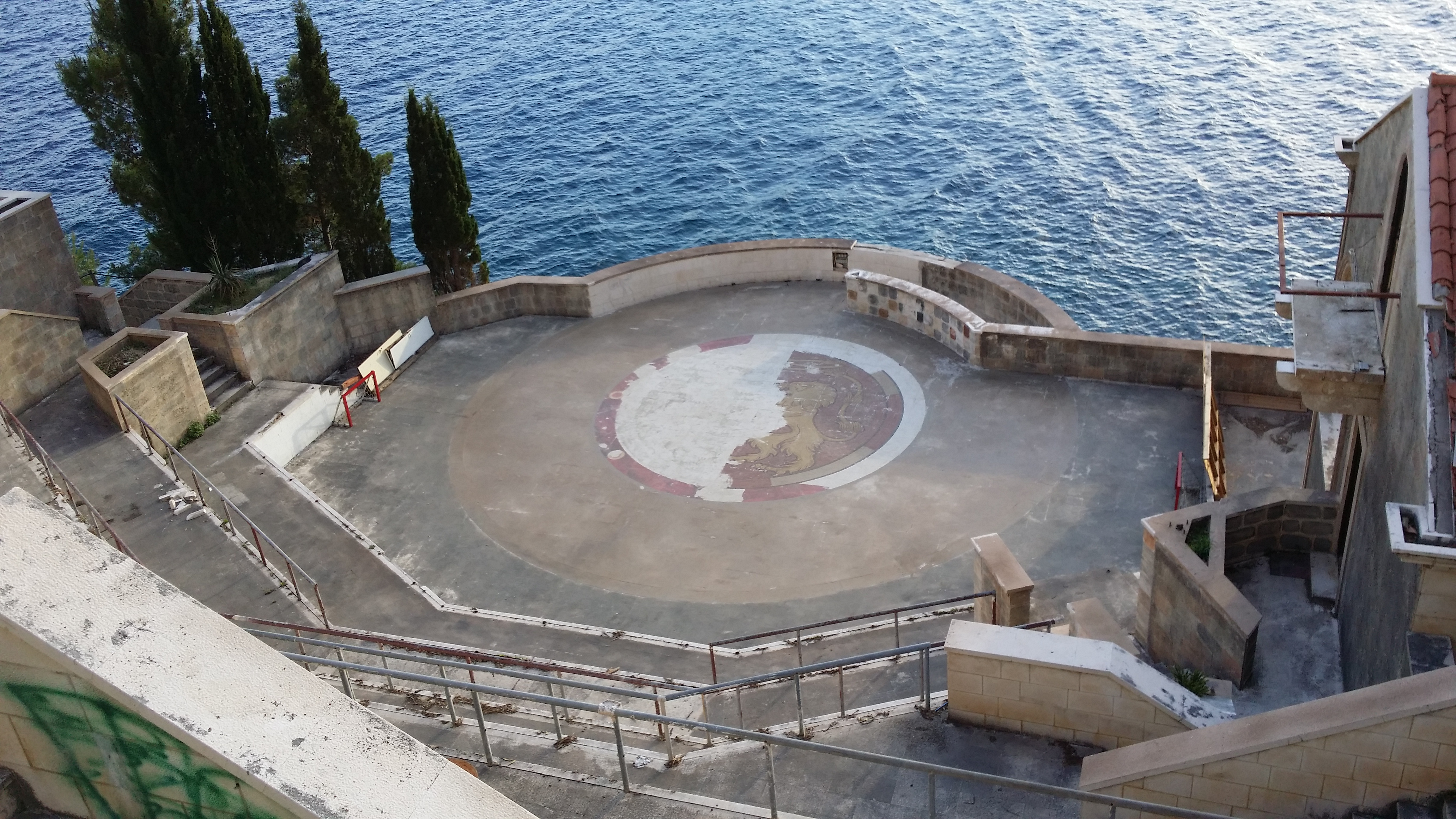 The amphitheatre near the abandoned Belvedere Hotel in Dubrovnik, Croatia where the fighting scene between the Red Viper (Oberyn Martell) and The Mountain (Gregor Clegane) takes place in Game of Thrones.